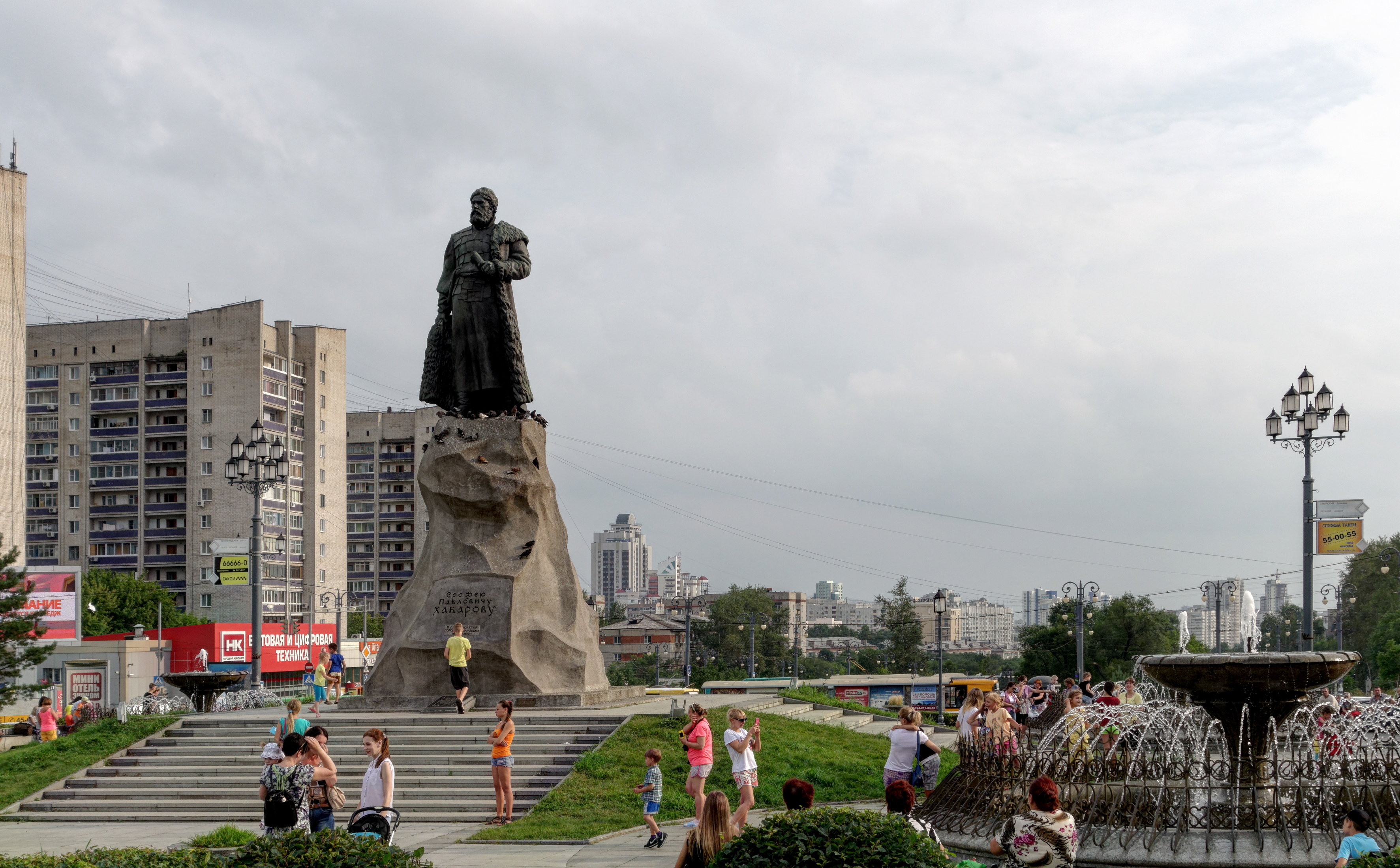 Khabarovsk. Monument to Yerofey Khabarov